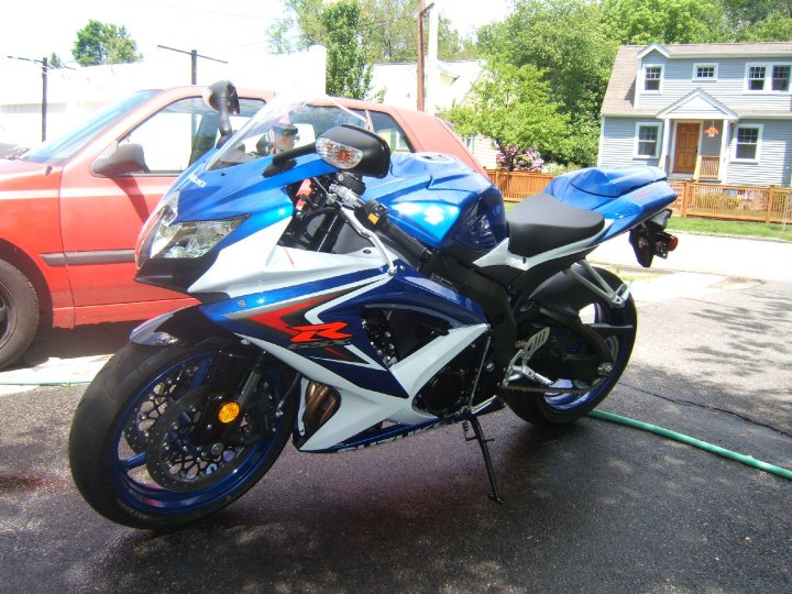 stock K8 gixxer 750